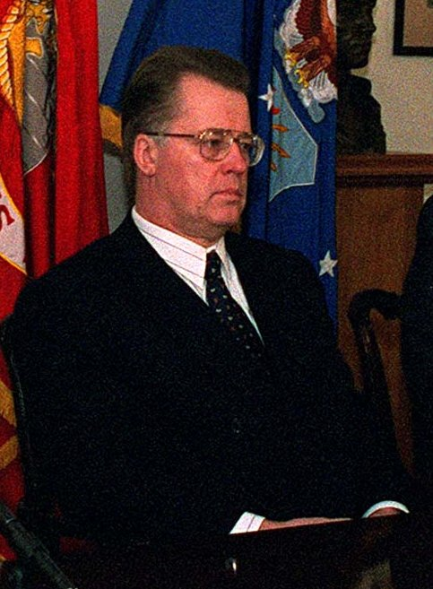 Guntis Ulmanis, President of Latvia, during a visit to the Pentagon on January 15, 1998.